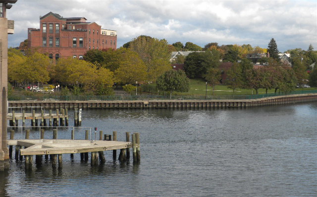 Quinnipiac Brewery, Fair Haven, from Grand St. Bridge